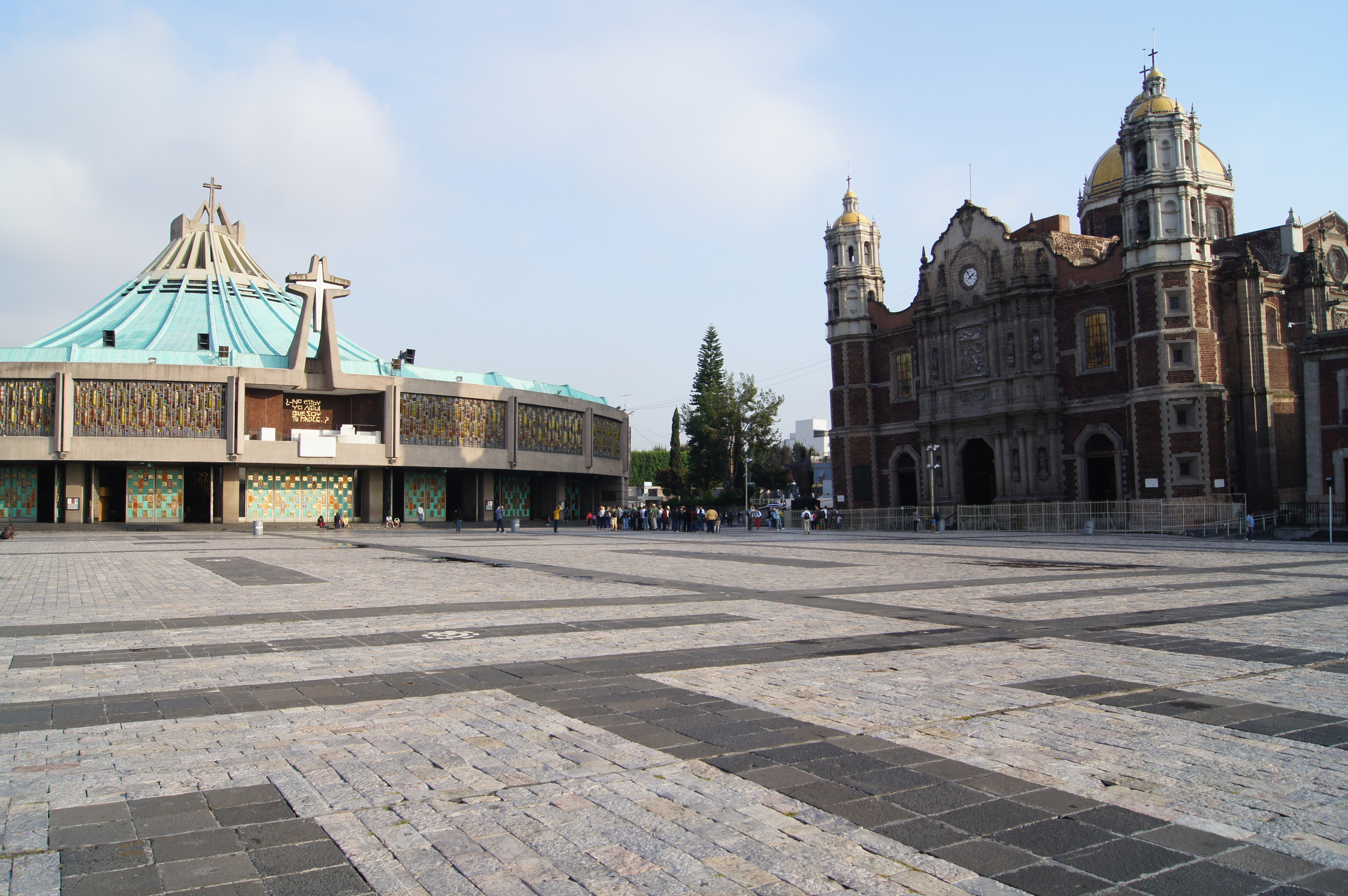 Wikimania 2015 photographs by Sebastian Wallroth